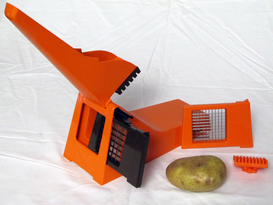 chip-cutter, Gourmet museum, Hermalle-sous-Huy, Belgium